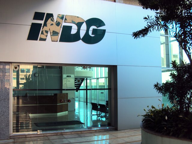 The headquarters of INDG - Instituto de Desenvolvimento Gerencial S. A. in Nova Lima, Minas Gerais, Brasil